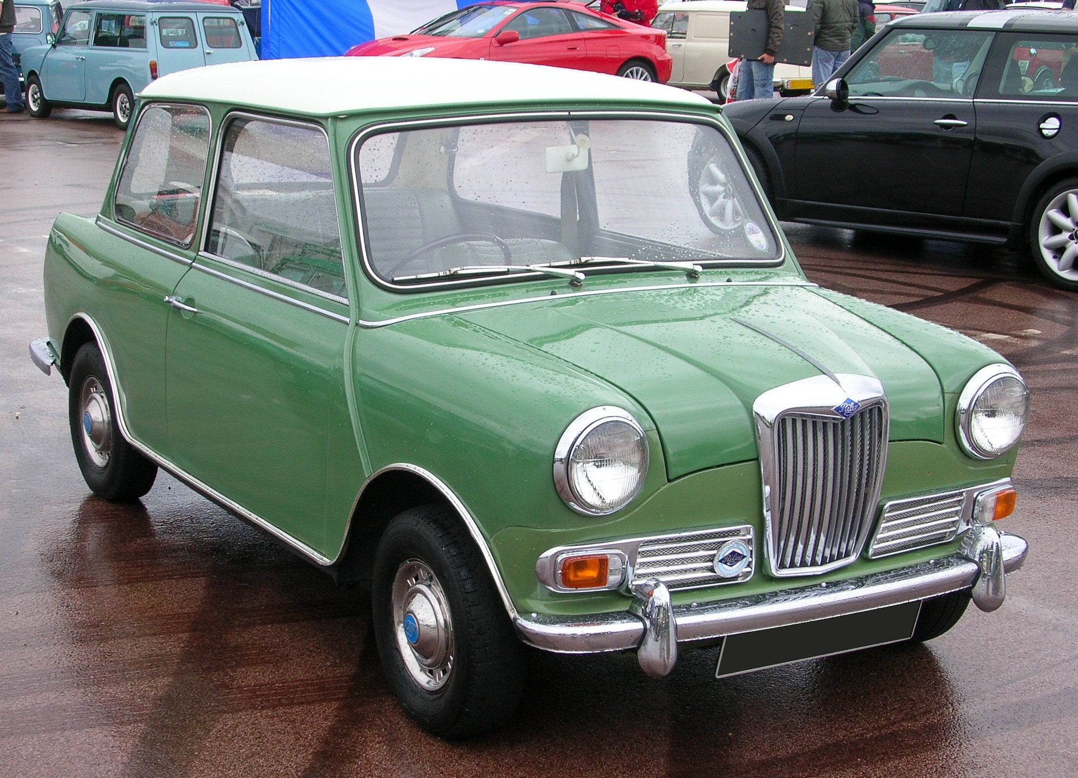 A 1968 Riley Elf Mark III (998cc) photographed at the Gaydon Mini Festival 2007 held at the Heritage Motor Centre, Gaydon, UK